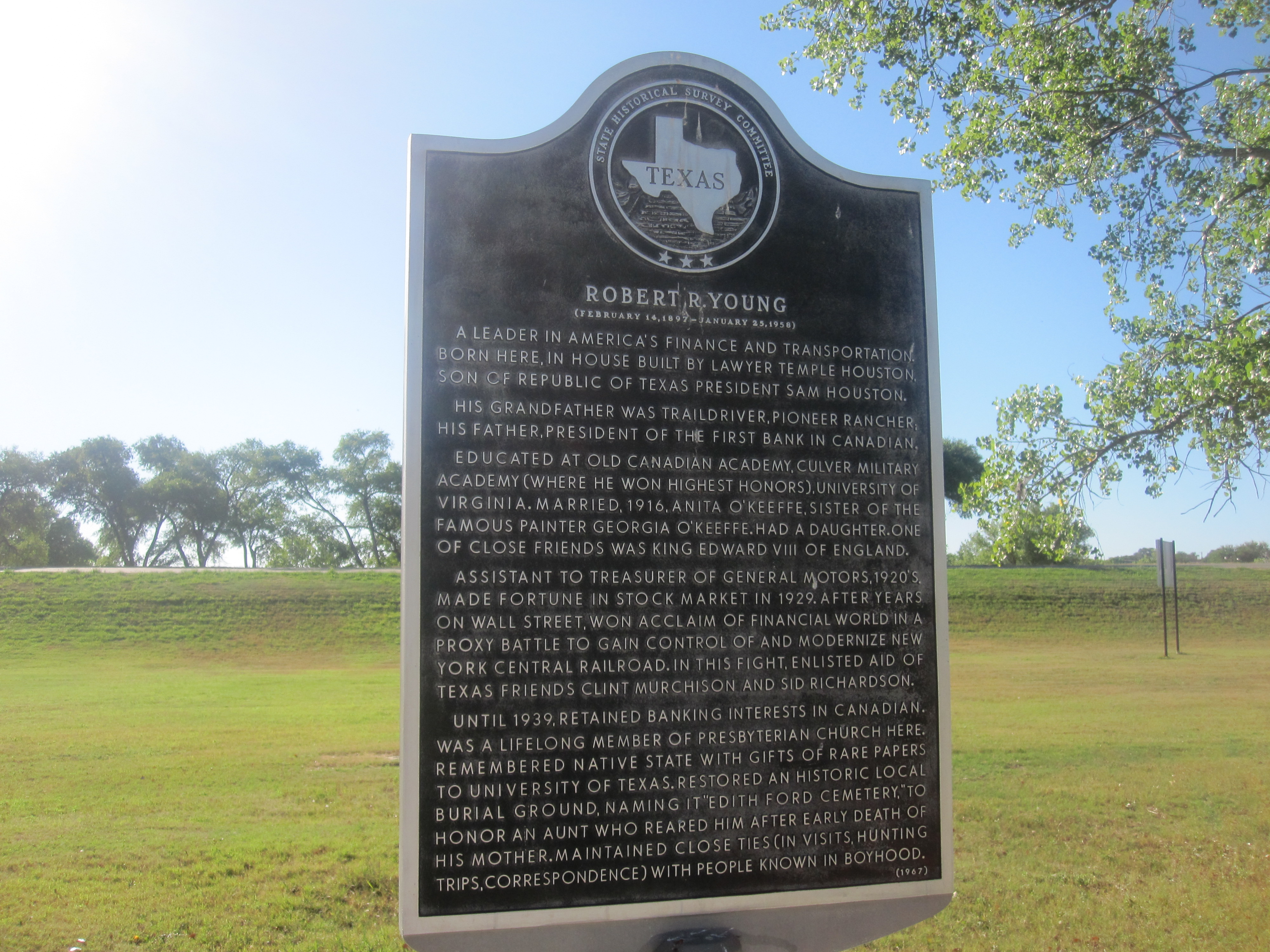 I took photo with Canon camera in Canadian, TX.